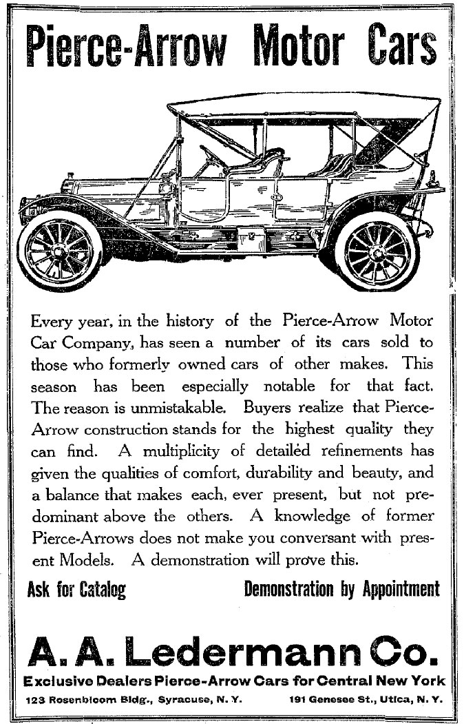 A 1911 Pierce-Arrow Advertisement